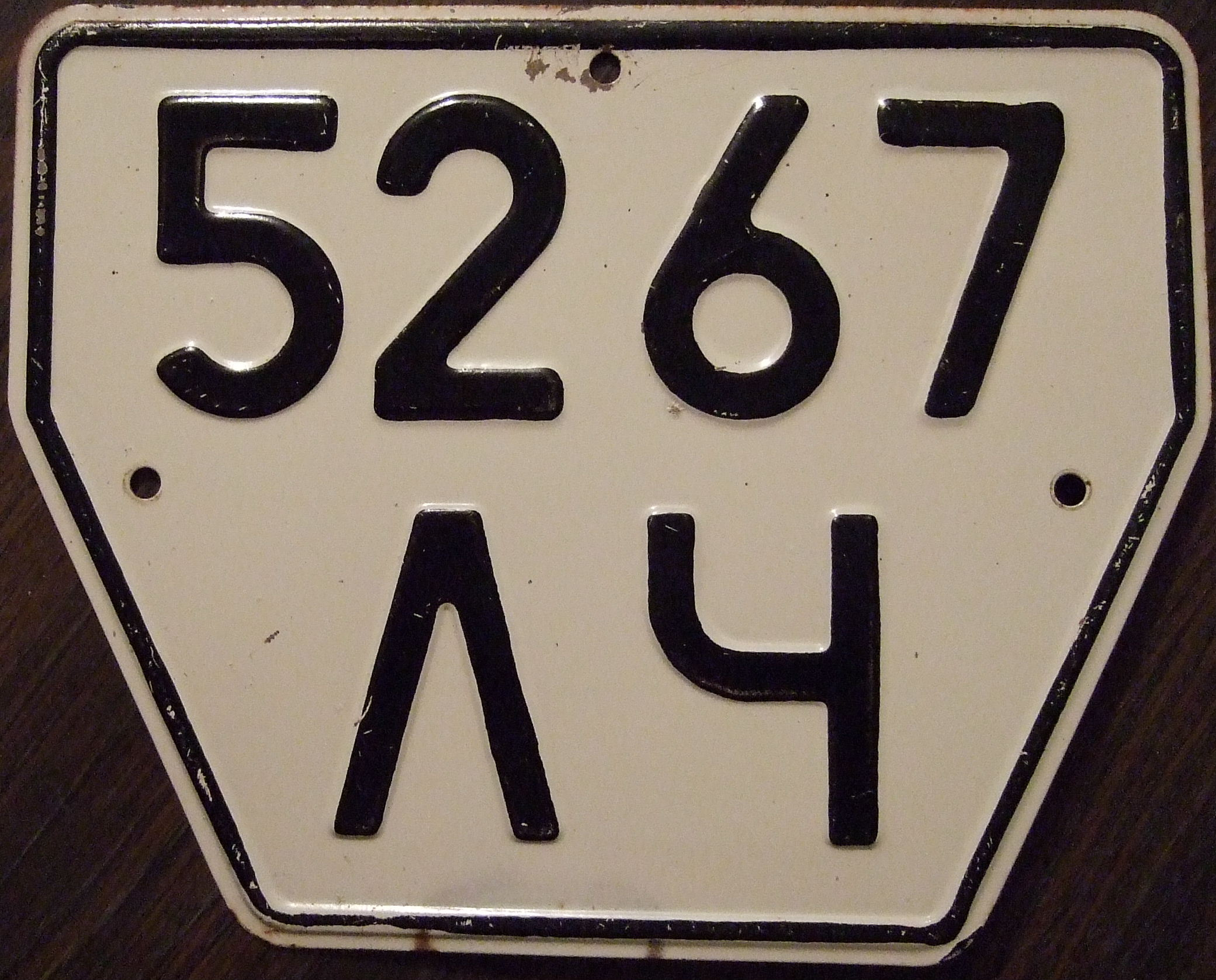 USSR LITHUANIAN SSR auto trailer plate 1980 series